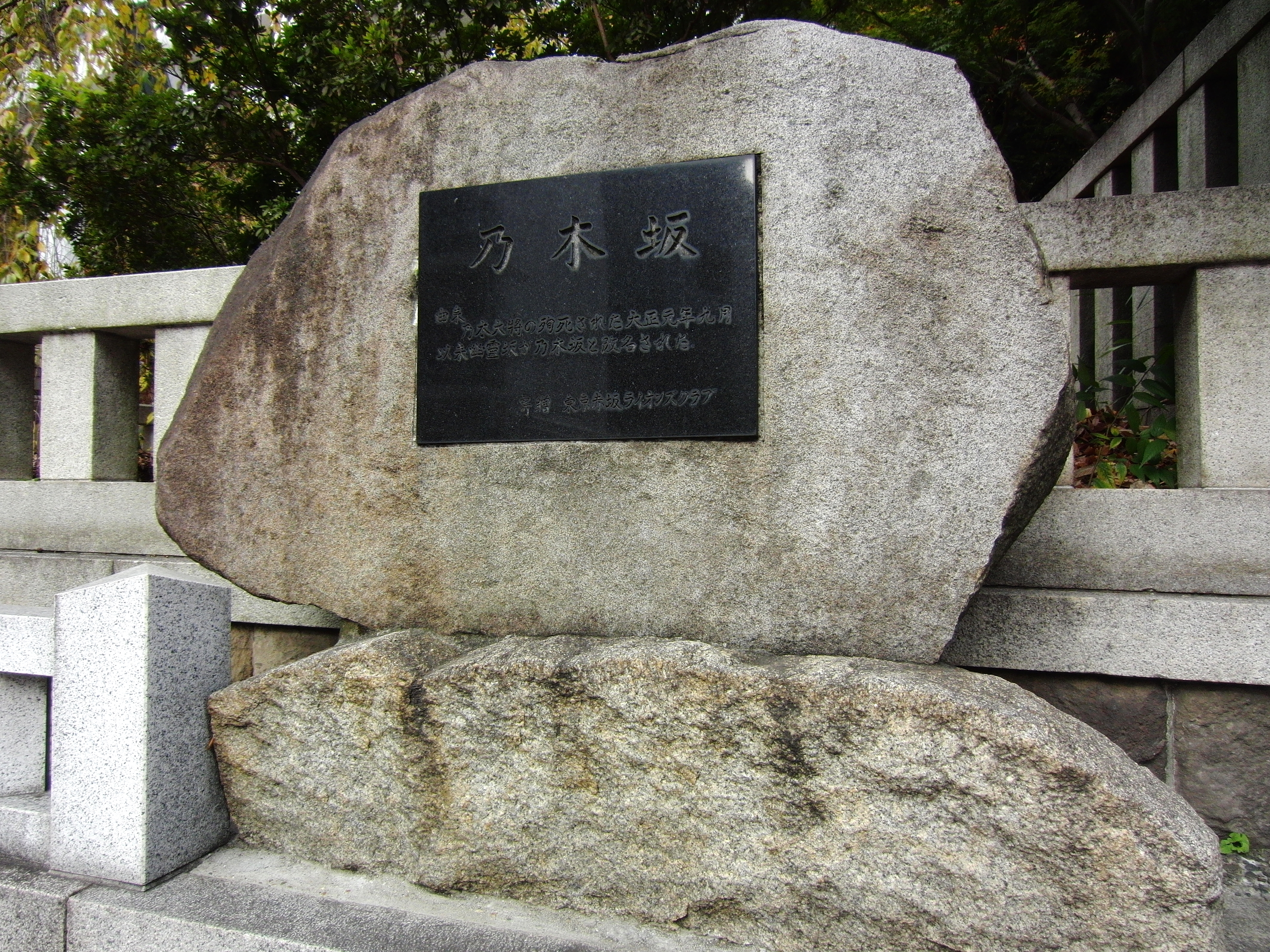 The stele about the origin of Nogizaka, in front of the Nogi Shrine, Akasaka, Minato, Tokyo, Japan